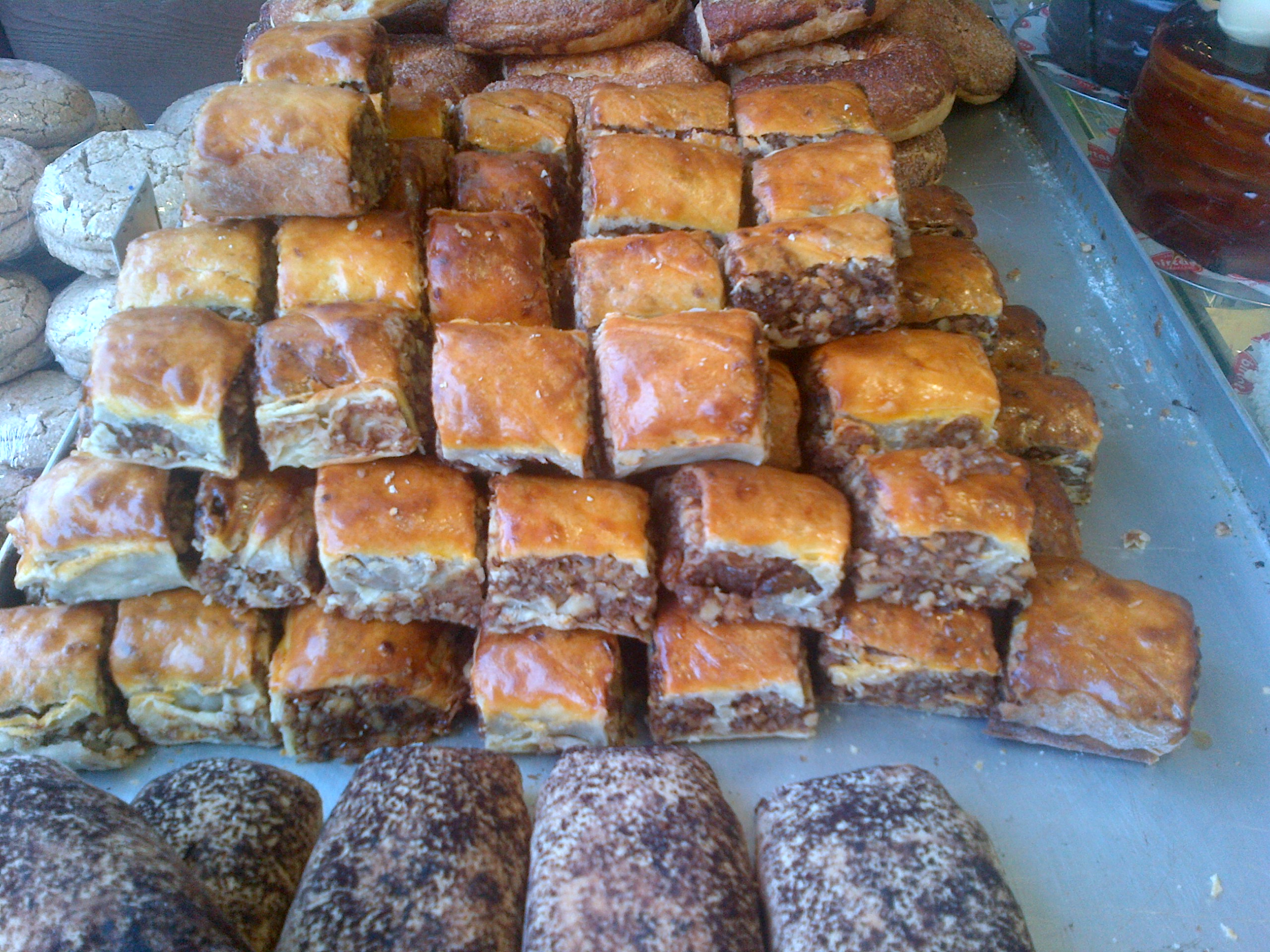 Nokul, a dessert (sweet pastry) from the central part of the Black Sea Region, Turkey.